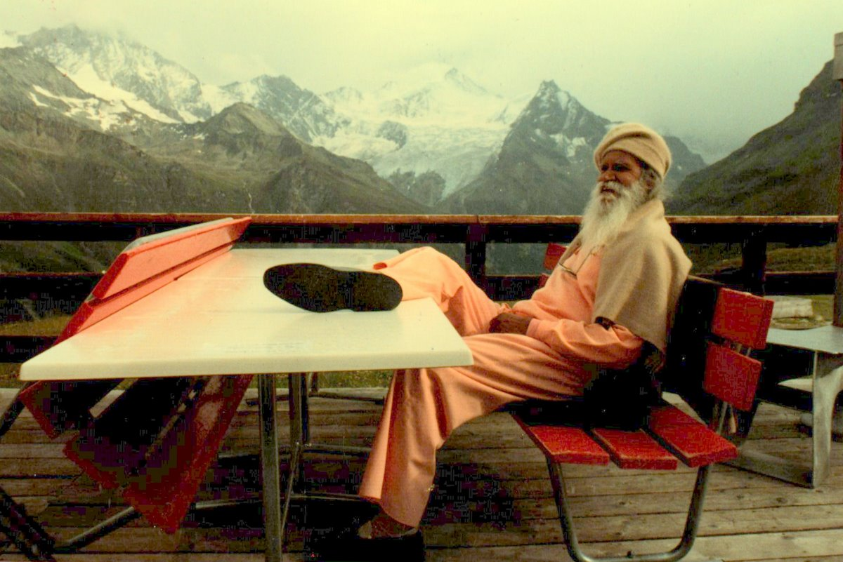 Swami Satchidananda on a rainy Swiss mountain